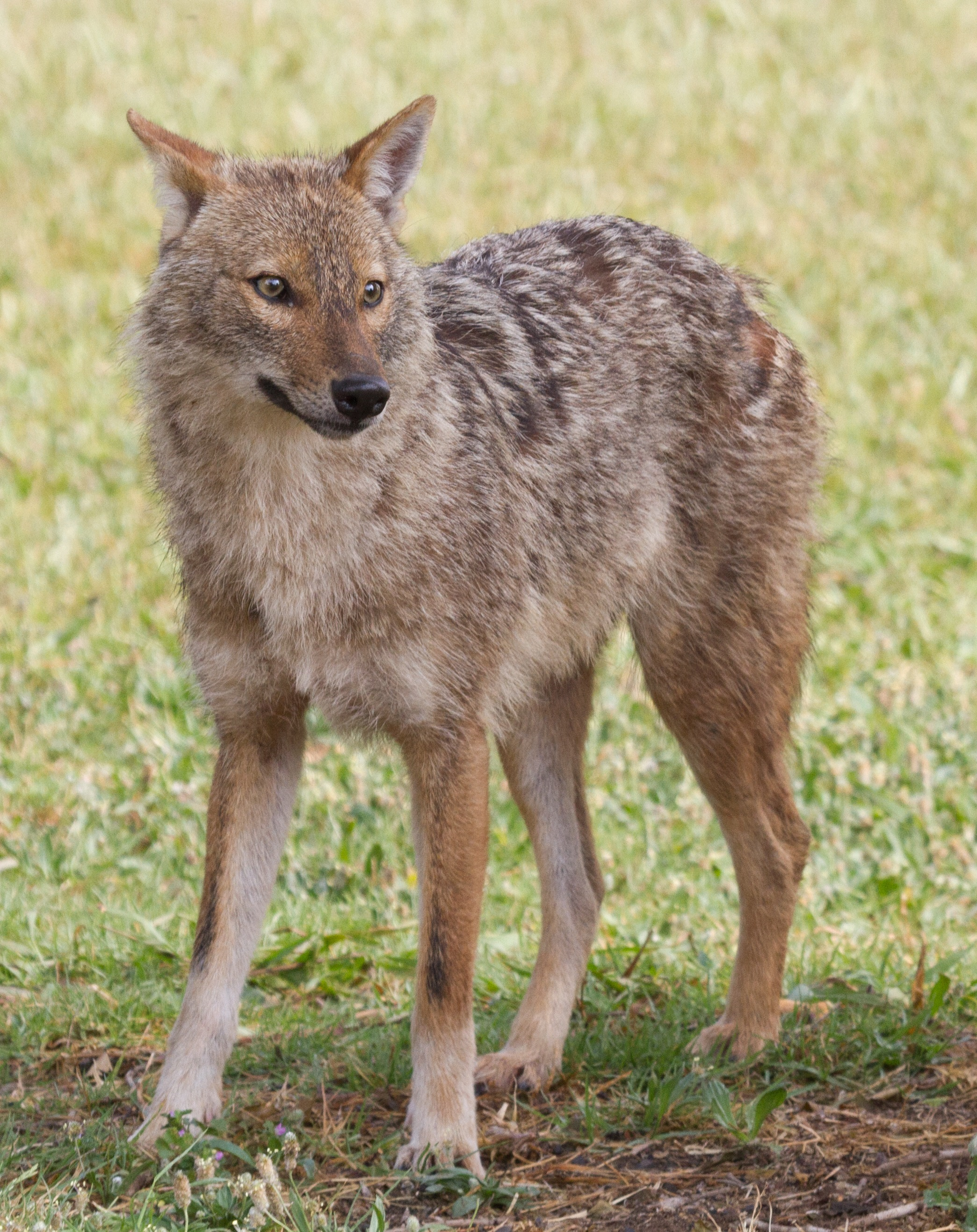 Golden jackal - Canis aureus - in Yarkon park in Tel-Aviv